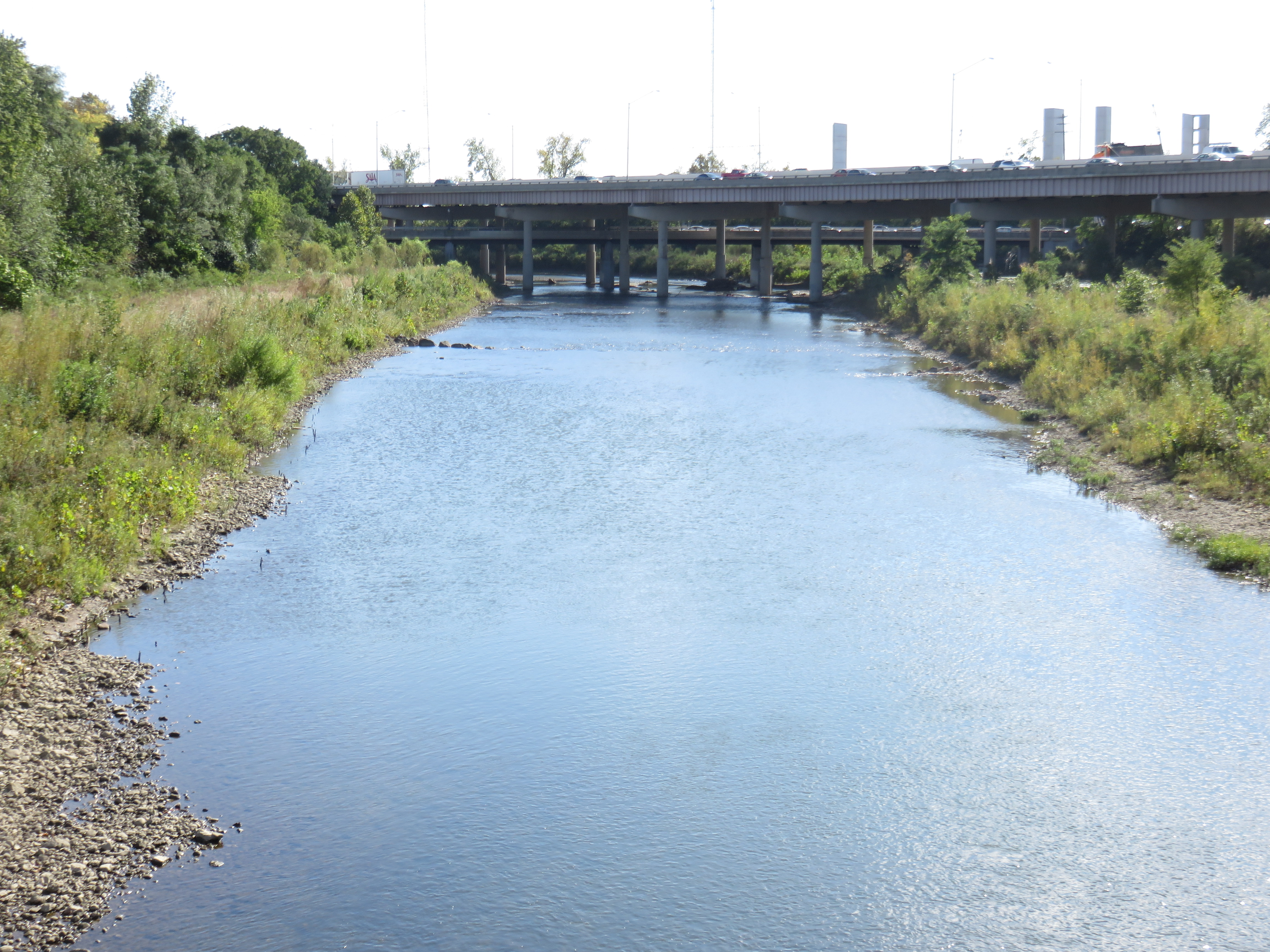 Ohio State Route 315 and 15th Avenue crossings of the Olentangy River in Columbus, Ohio in 2018